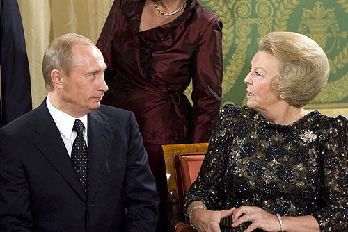 Russian President Vladimir Putin and Queen Beatrix of the Netherlands.